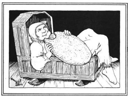 An illustration of the fairy tale A Legend of Knockmany created by John D. Batten for Joseph Jacob's collection Celtic Fairy Tales.